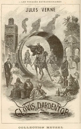 Ilustration from Léon Benett from French edition of novel "Milionář na cestách".